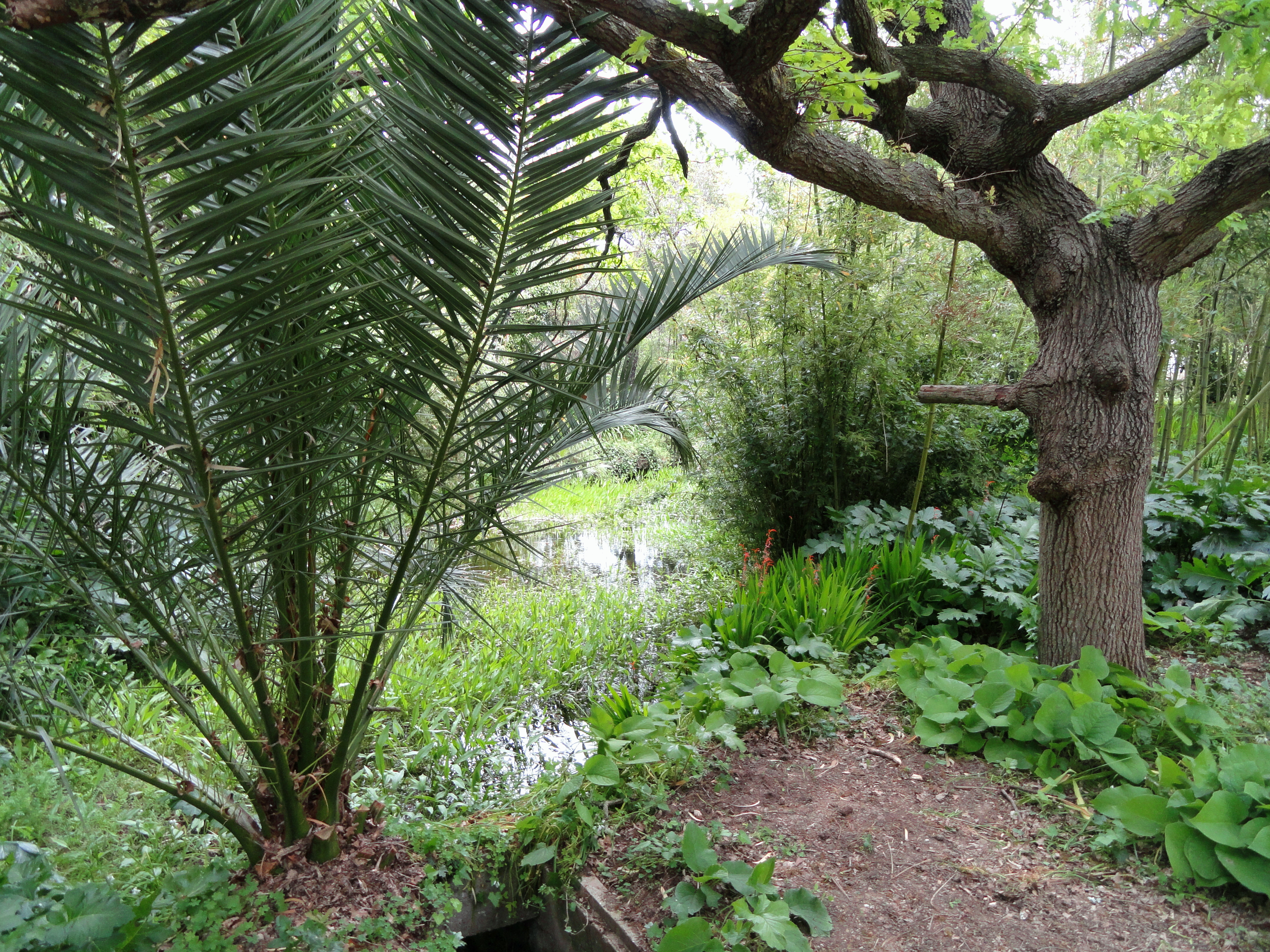 General view of the Jardin botanique de la Villa Thuret, Antibes Juan-les-Pins, Alpes-Maritimes,France.